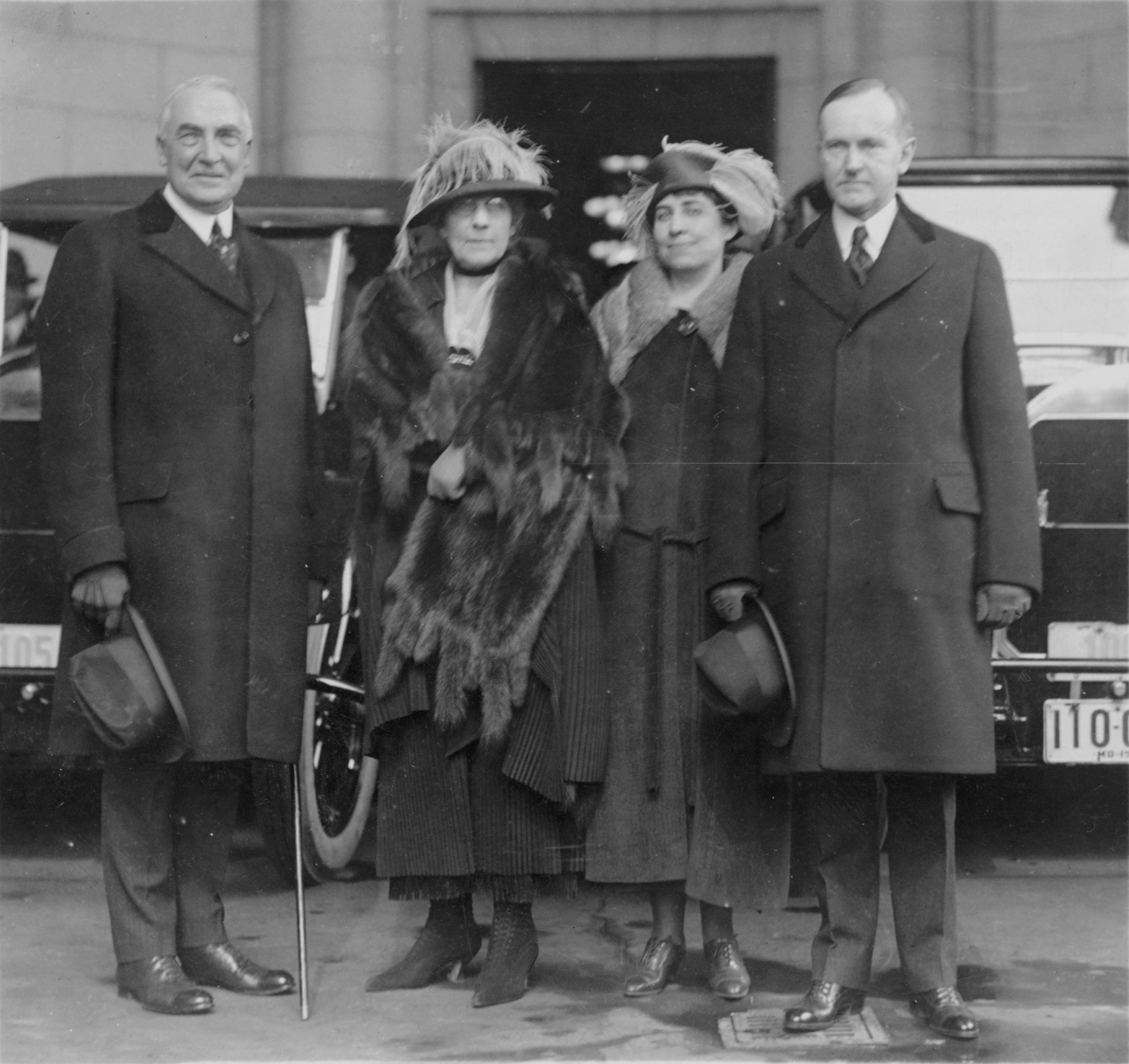 Hardings and Coolidges - The President and Vice-President of the United States with their wives, standing in front of automobiles. Left to right: President Warren G. Harding, hat in hand, with walking stick; First Lady Mrs. Florence Harding in fur coat and feathered hat; Mrs. Grace Goodhue Coolidge; Vice President Calvin Coolidge.